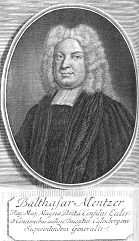 Balthasar Mentzer IV (1679-1741), Protestant theologians from Germany